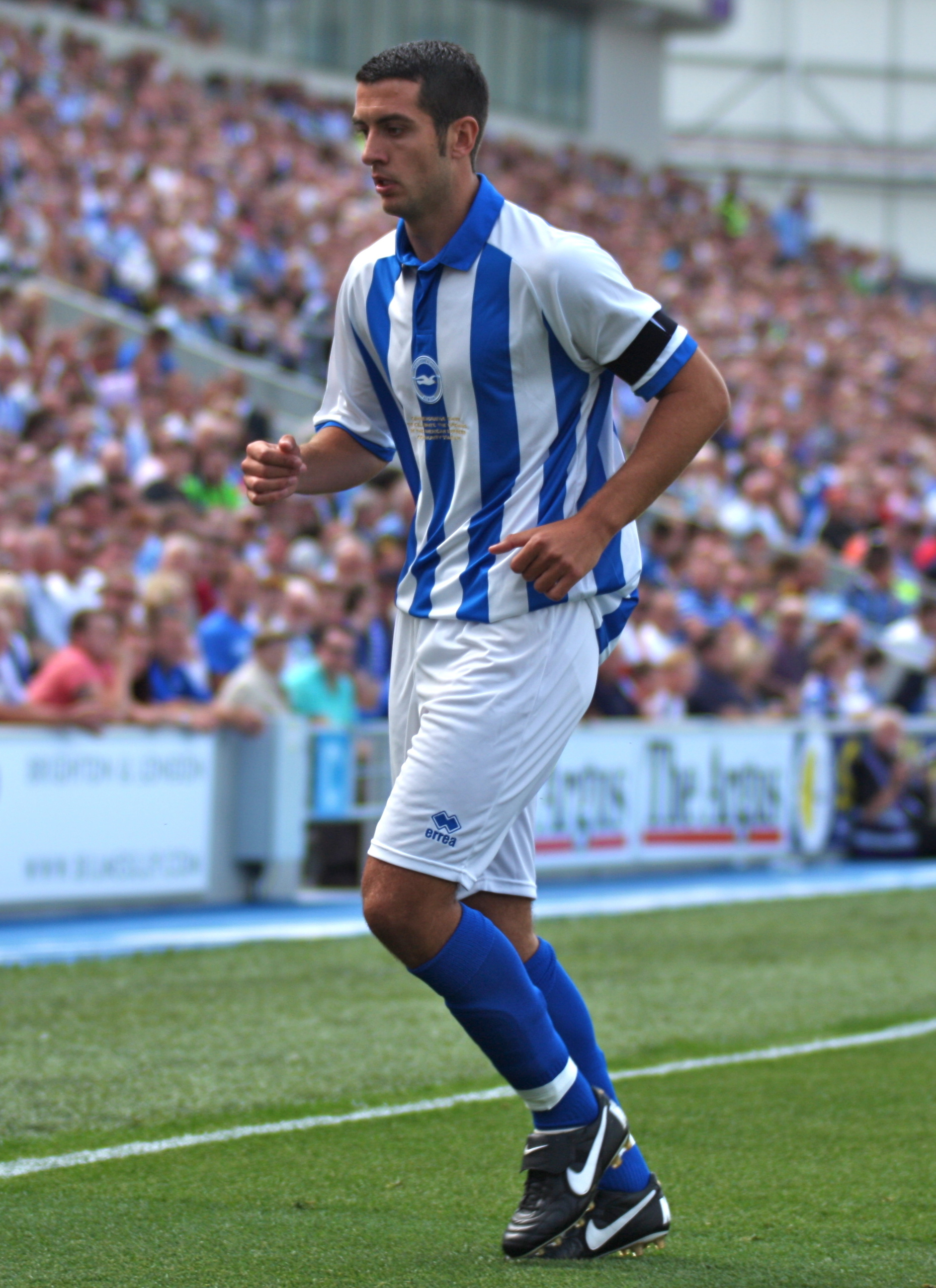 Brighton v Spurs Amex Opening 30/7/11